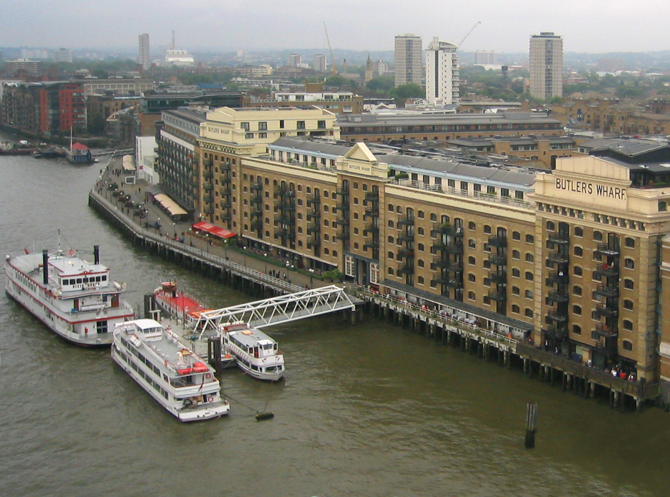 London